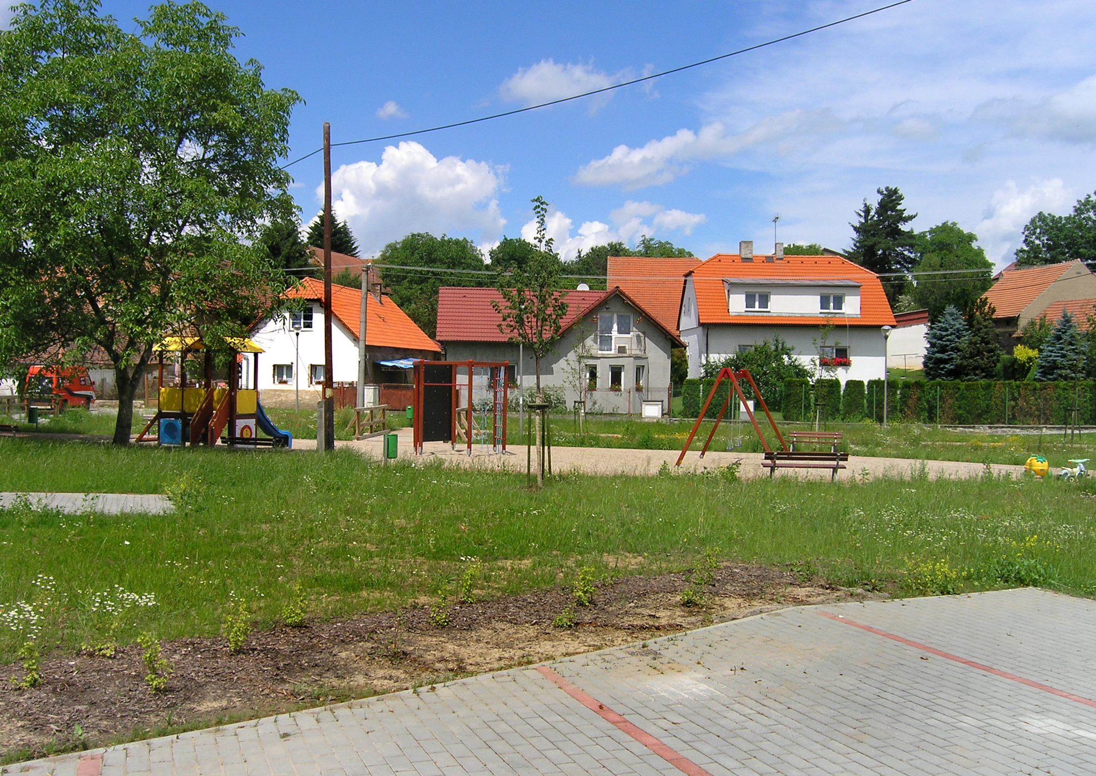 Playground in Sulice village, Czech Republic